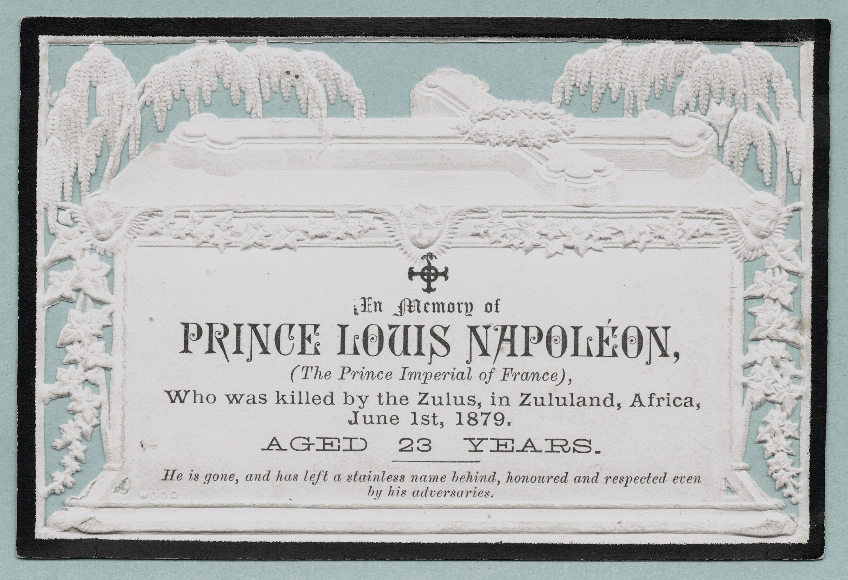 Carte mémoriale du prince Louis Napoléon, décédé en juin 1879. Collections : le familier des Bonaparte Louis Duchesne (1842-1922), Paul Miniac (1851-1936), Louis Miniac, Paul Miniac ( 1927-1995), Marie-Anne-Miniac, Rennes, France.